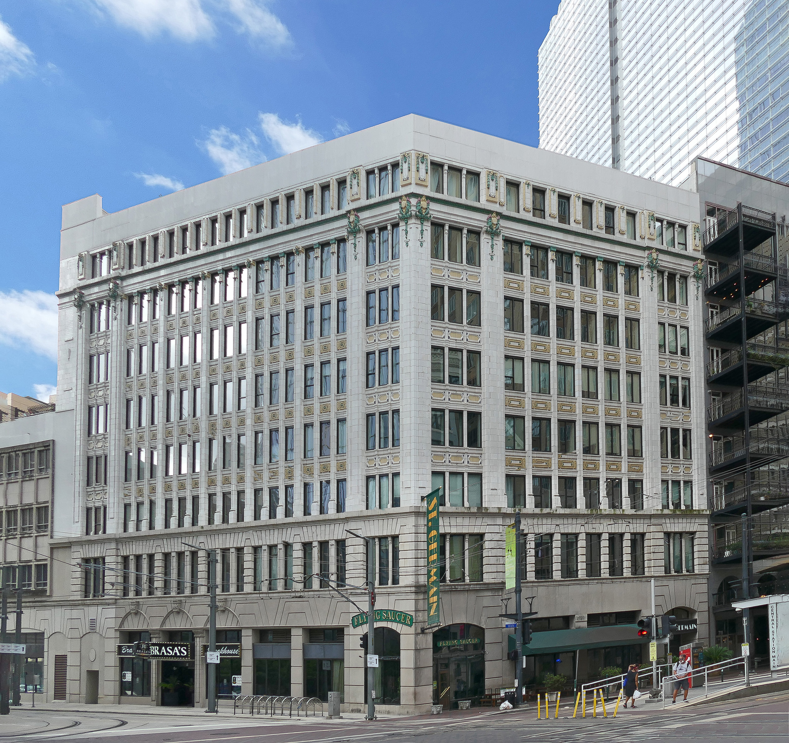 The eight-story building is covered almost entirely in terra cotta. A 1983 renovation removed the Kress signage and other architectural features of its retail past, but the building retains the character of a 1913 skyscraper, one of several built in downtown Houston at the time. This S. H. Kress & Co. building was one of the largest the company built, and one of the few to incorporate professional offices. This outpost of the S.H. Kress & Co. five-and-dime, sitting at what was once the head of Houston’s primary retail district, was designed by Kress staff architect Seymour Burrell in 1913. The building was renovated as the St. Germain Lofts. Although Houston’s second Kress store followed the general pattern of the chain at the time, it was still unusual. The typical Kress store contained room enough for retail space and offices on the upper floors. The Houston location was eight stories – enough room for retail on the first 3½ floors, Kress’s offices above, and four floors of office space for lease. The store had two facades, one facing Main, the other facing Capitol. Like most early high-rises, this building emphasized its verticality, with a two-story base, a five-story shaft, and a single story crown. The reinforced concrete frame is sheathed in terra cotta, scored to simulate stone. Kress stores always had colorful ornamentation, and this store was no exception.